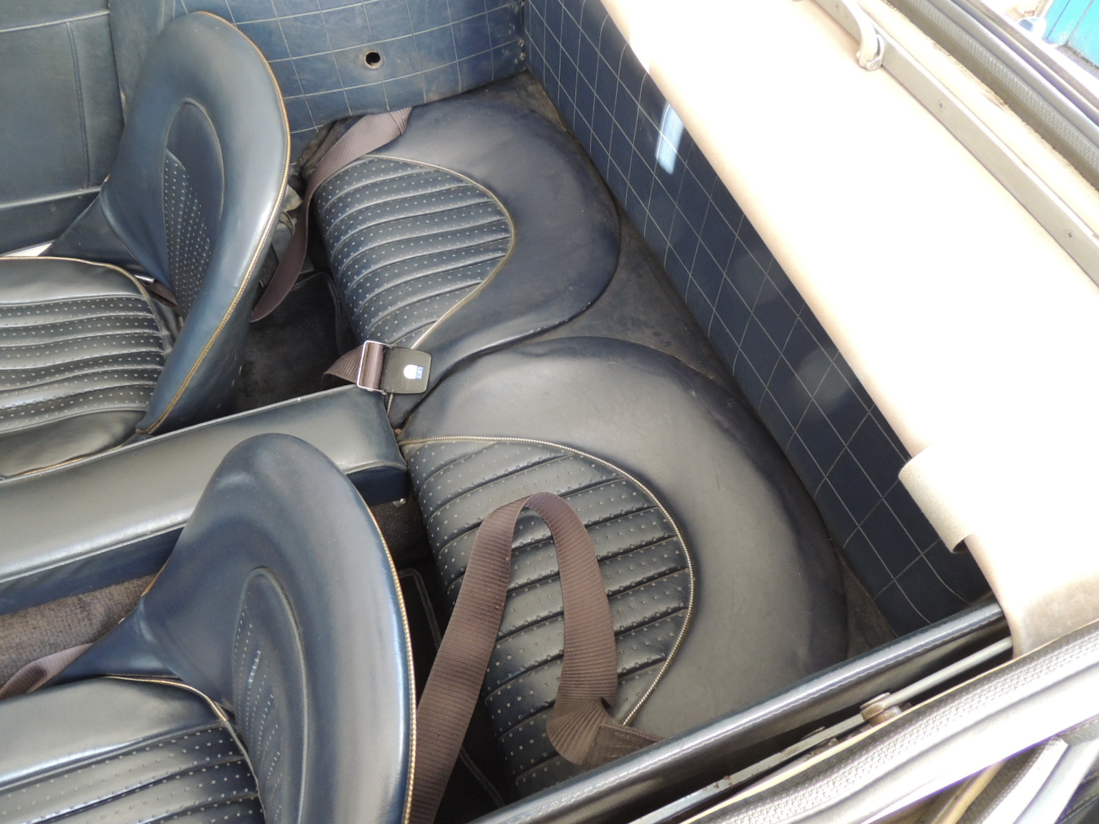 Austin-Healey 3000 Mark III (DVLA) first registered 24 November 1967, 2912cc